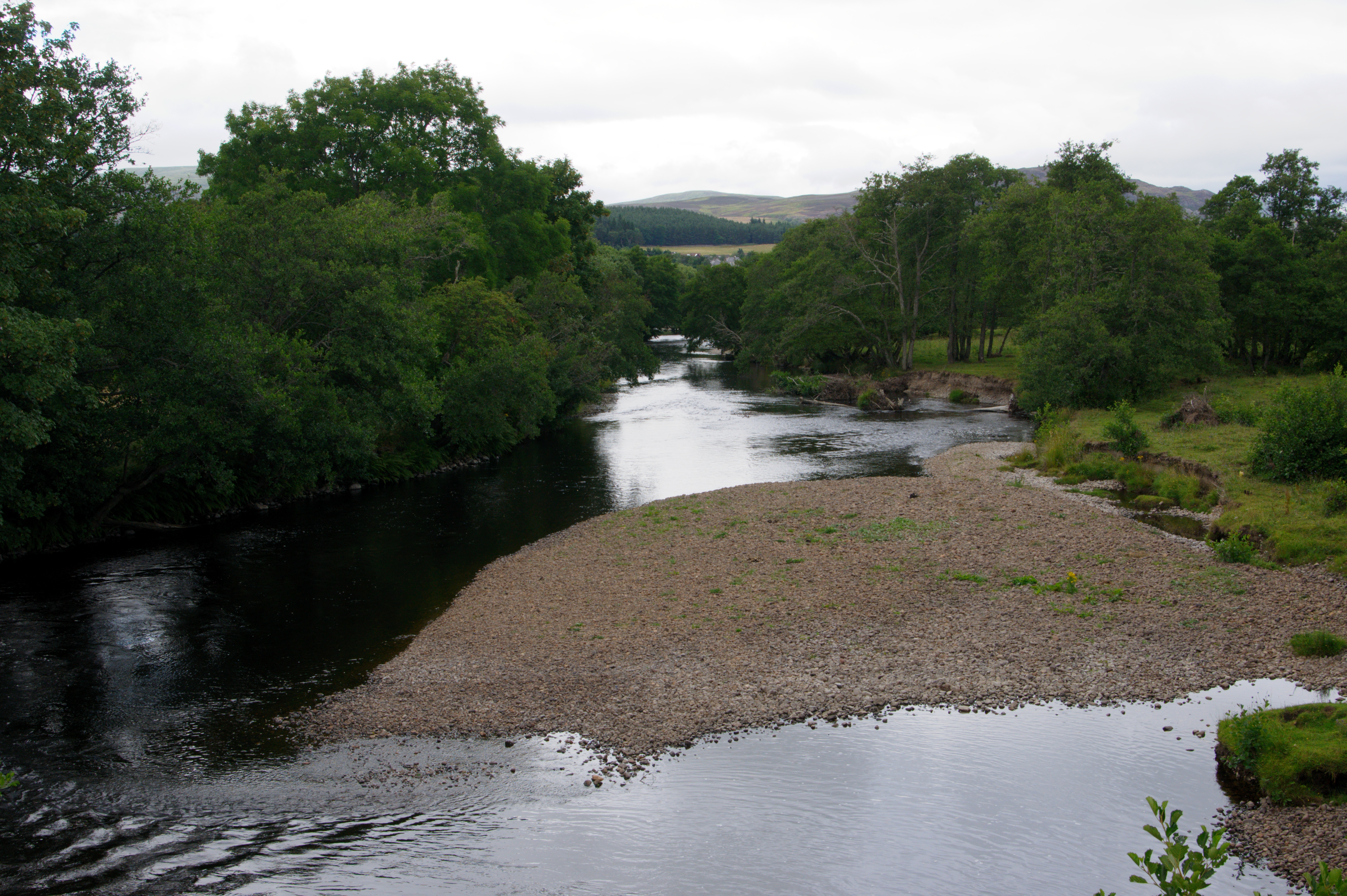 River Spey near Kingussie